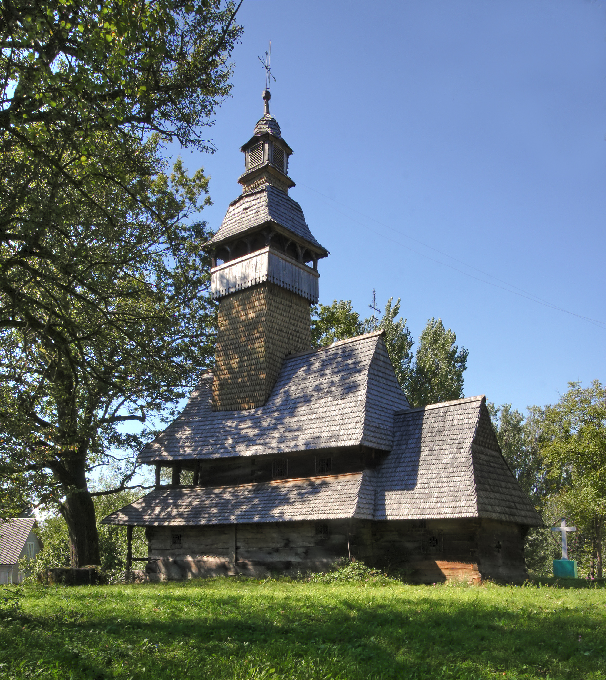 Church St. Nicholaus, Kolodne, Tiachiv Raion, Zakarpattia Oblast, Ukraine. Built in 1470 until 18th century (Mykhailo Syrokhman, Churches of Ukraine. Zakarpattia, p. 509f.)